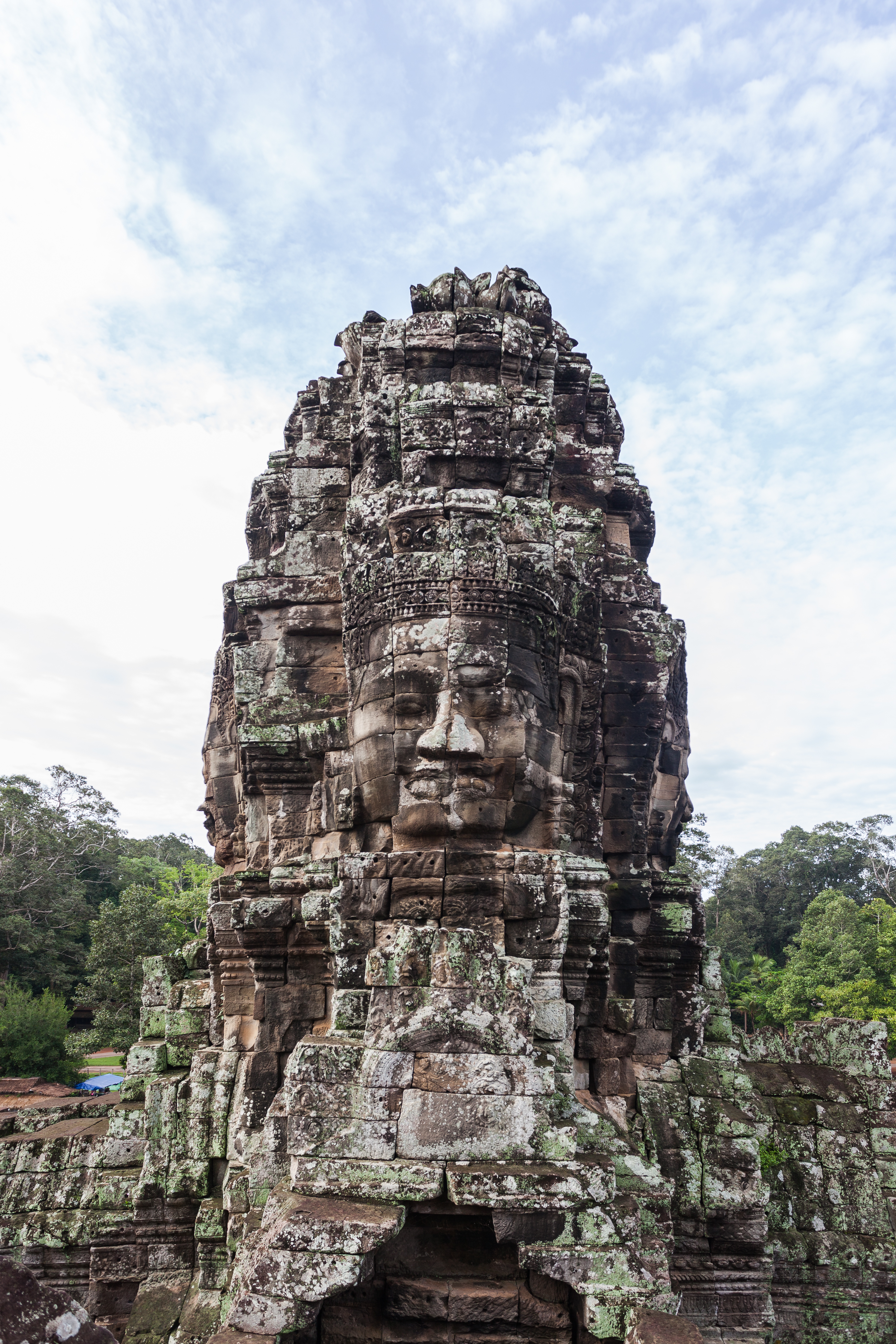 Bayon, Angkor Thom, Cambodia